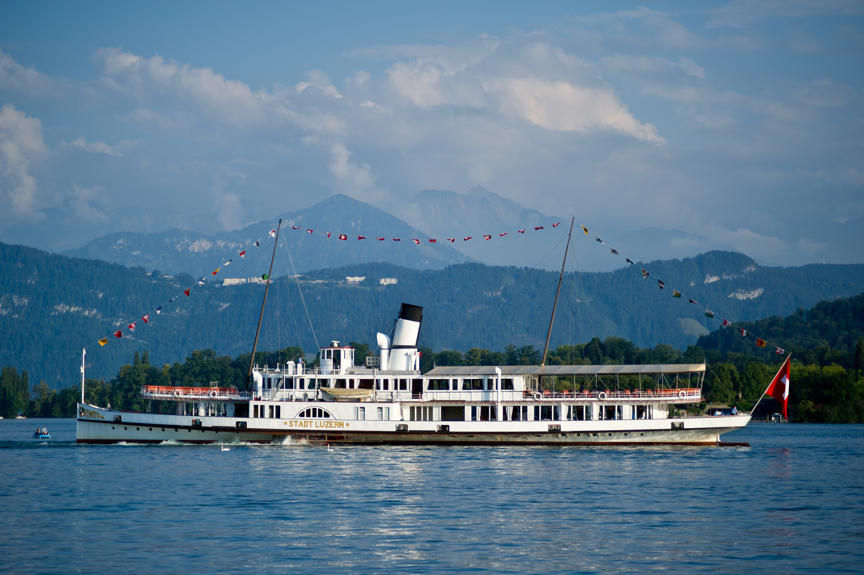 Side view of the Stadt Luzern steamship, Lucerne, Switzerland.